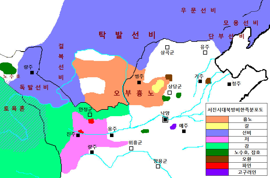 ㅁㅁㅁ